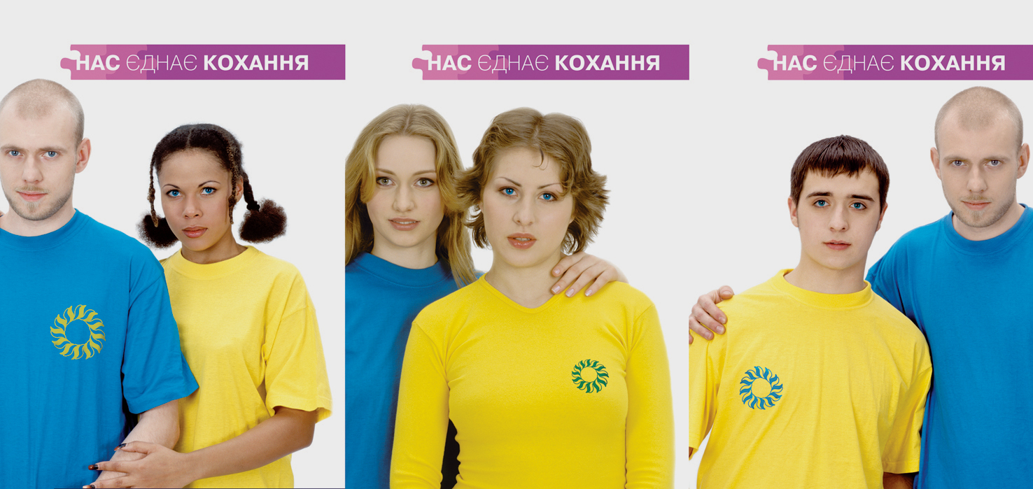 Poster for parliament elections, Ukraine, 2002